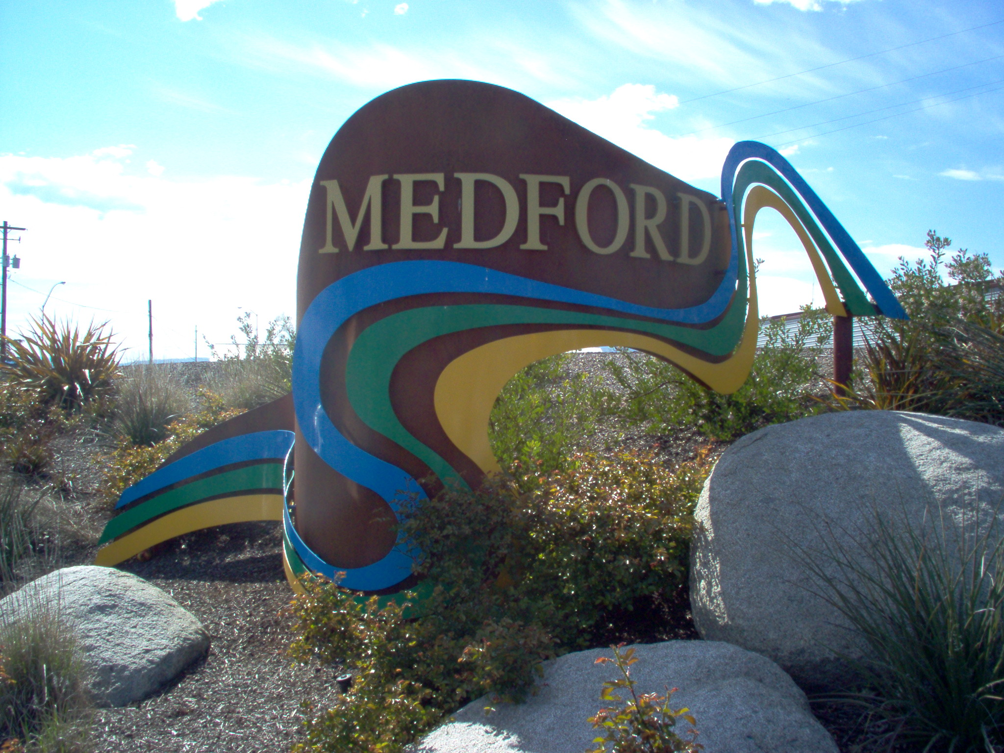 This sign is located on Highway 62 (Crater Lake Hwy) near the junction with Highway 99 (Riverside/Court/N Pac Hwy). Arguably the busiest intersection in Medford. You can see it best by taking I-5 exit 30 and turning Westward on 62. It is about 1/4 of a mile up on the right. The sign is about 6 feet tall and is dimly lit at night.